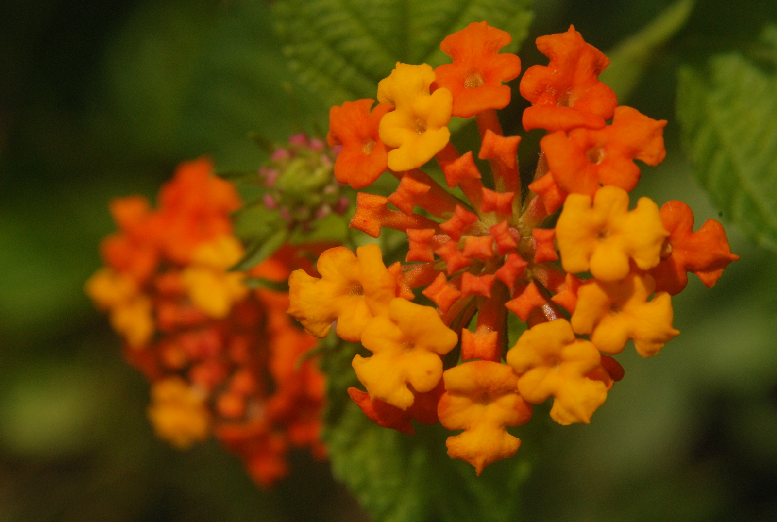 a Lantana camara flower in Malaysia